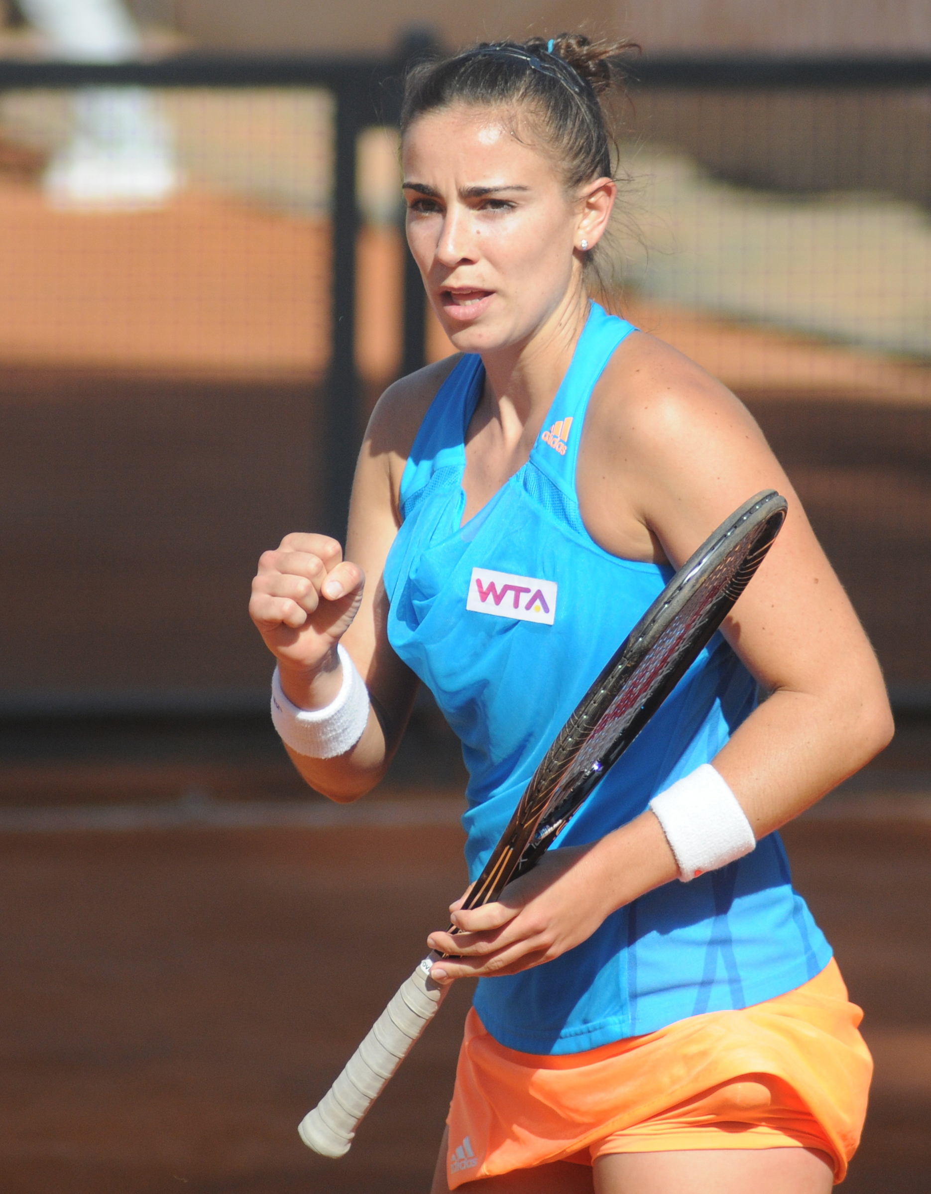 Paula Ormaechea at the 2014 Internazionali BNL d'Italia aka the Rome Masters